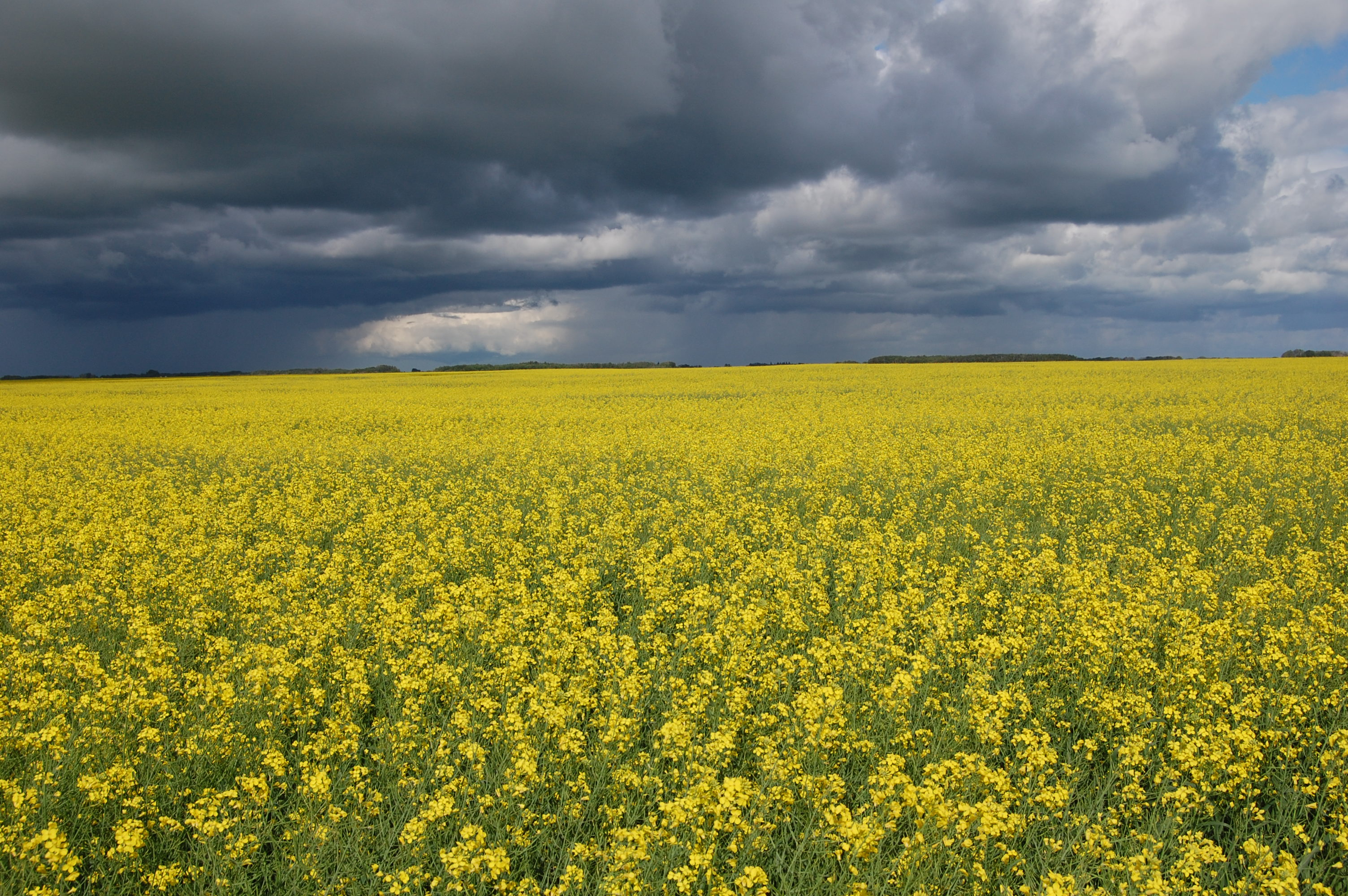 Blooming Canola field (Brassica napus), located in East Central Saskatchewan